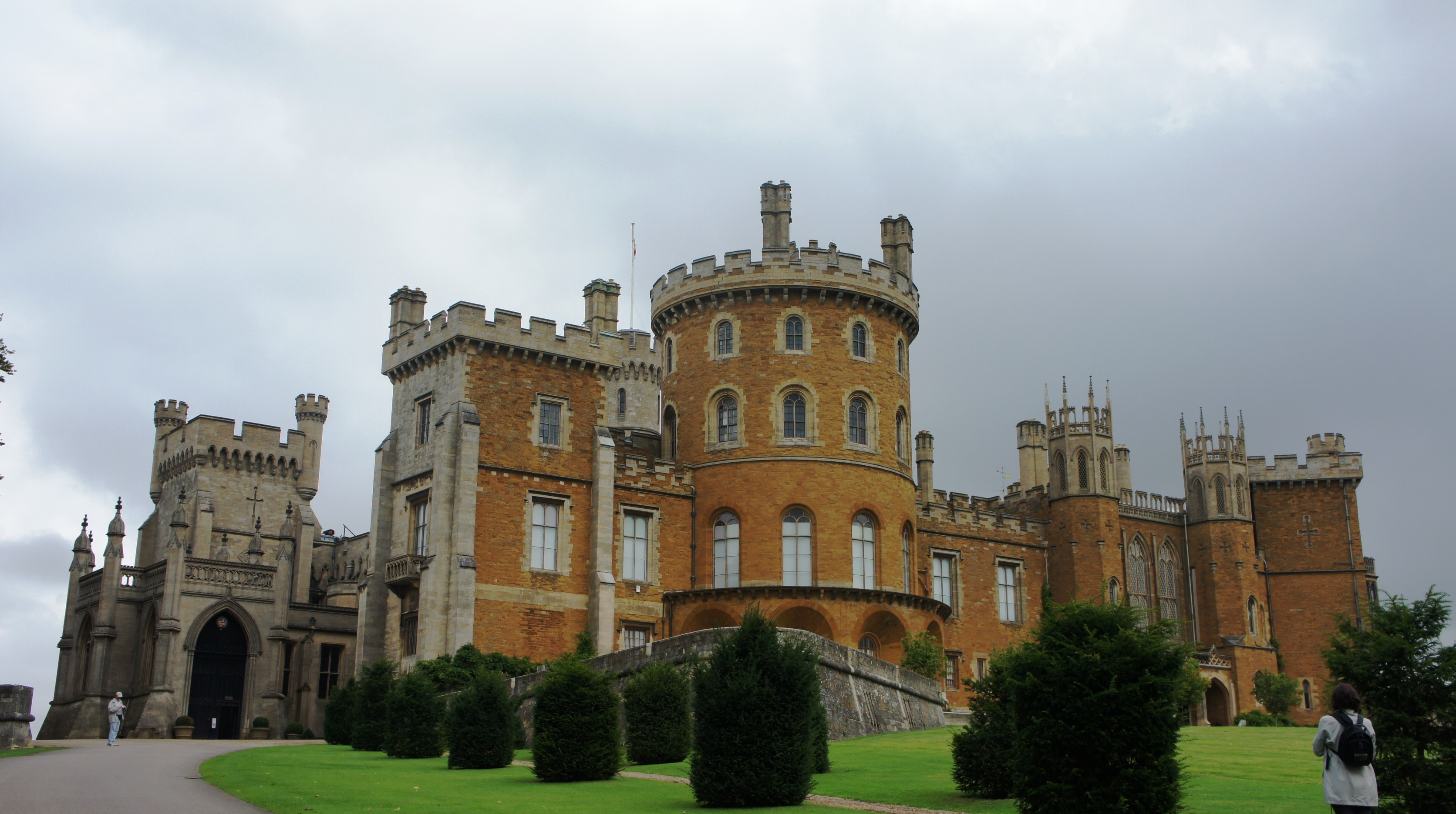 The picture of Belvoir Castle, Leistershire